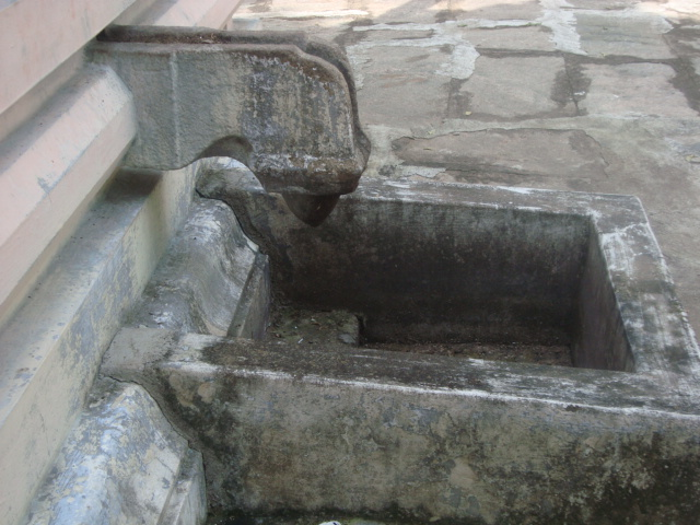 Pranala is one of the part of Hindu Temple.